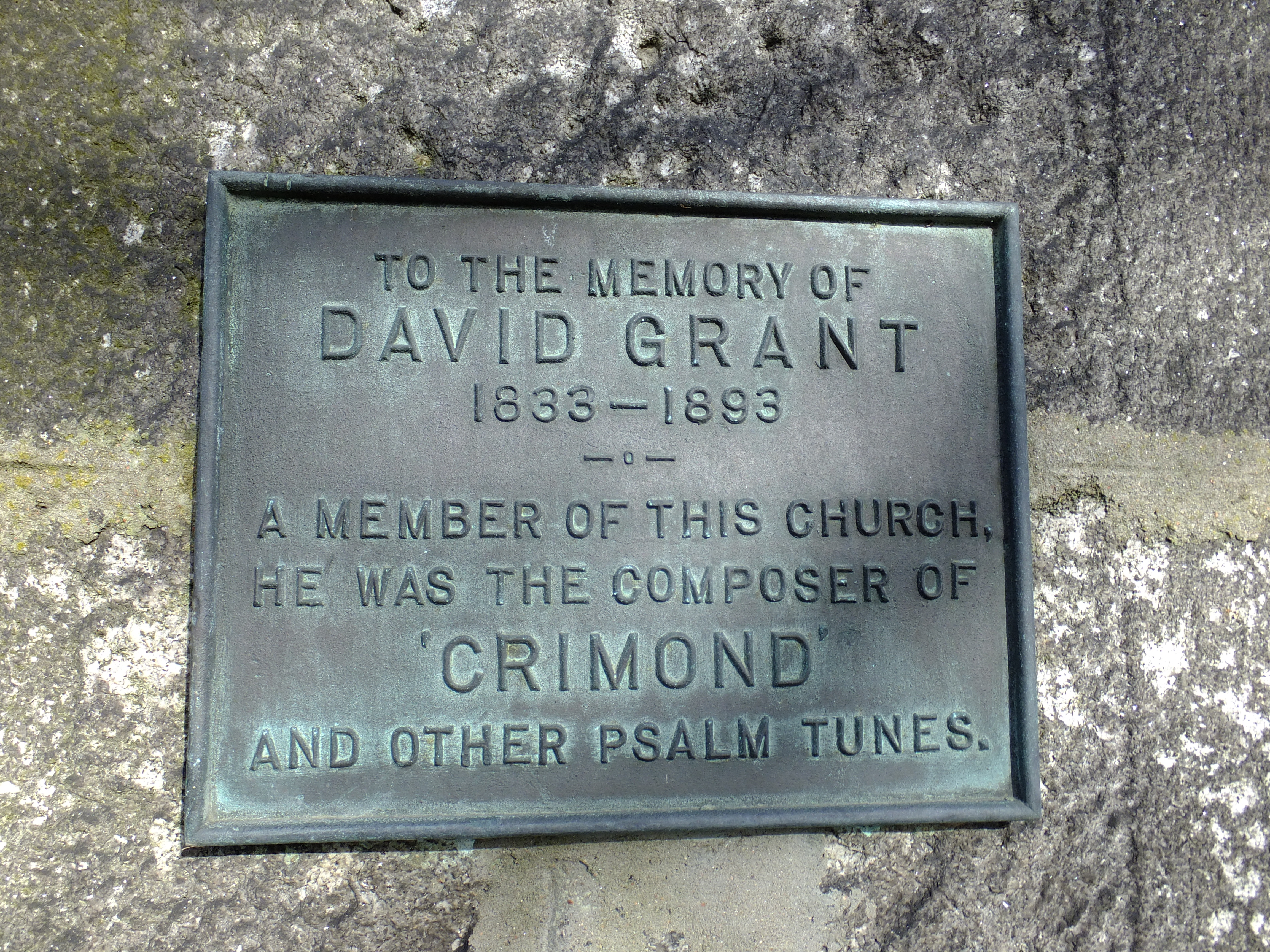 David Grant plaque, arranger of "Crimond", composed by Jessie Seymour Irvine – see Wikipedia. St Clement's East Church, Aberdeen.